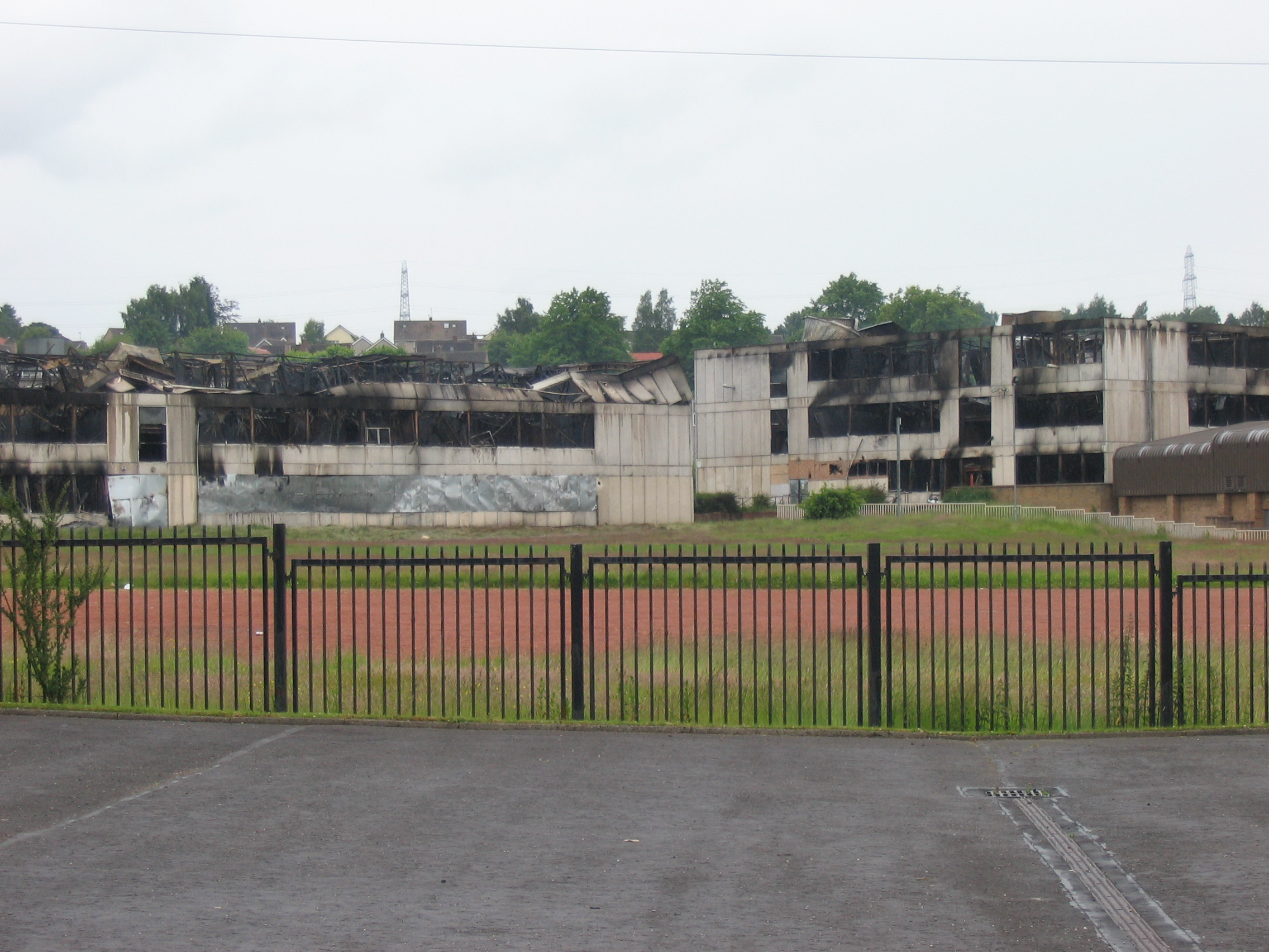 Shown is Earnock High School on 21/6/08 after an arson attack on the same day. On the left is the Main Teaching Block and on the right the Science Block.